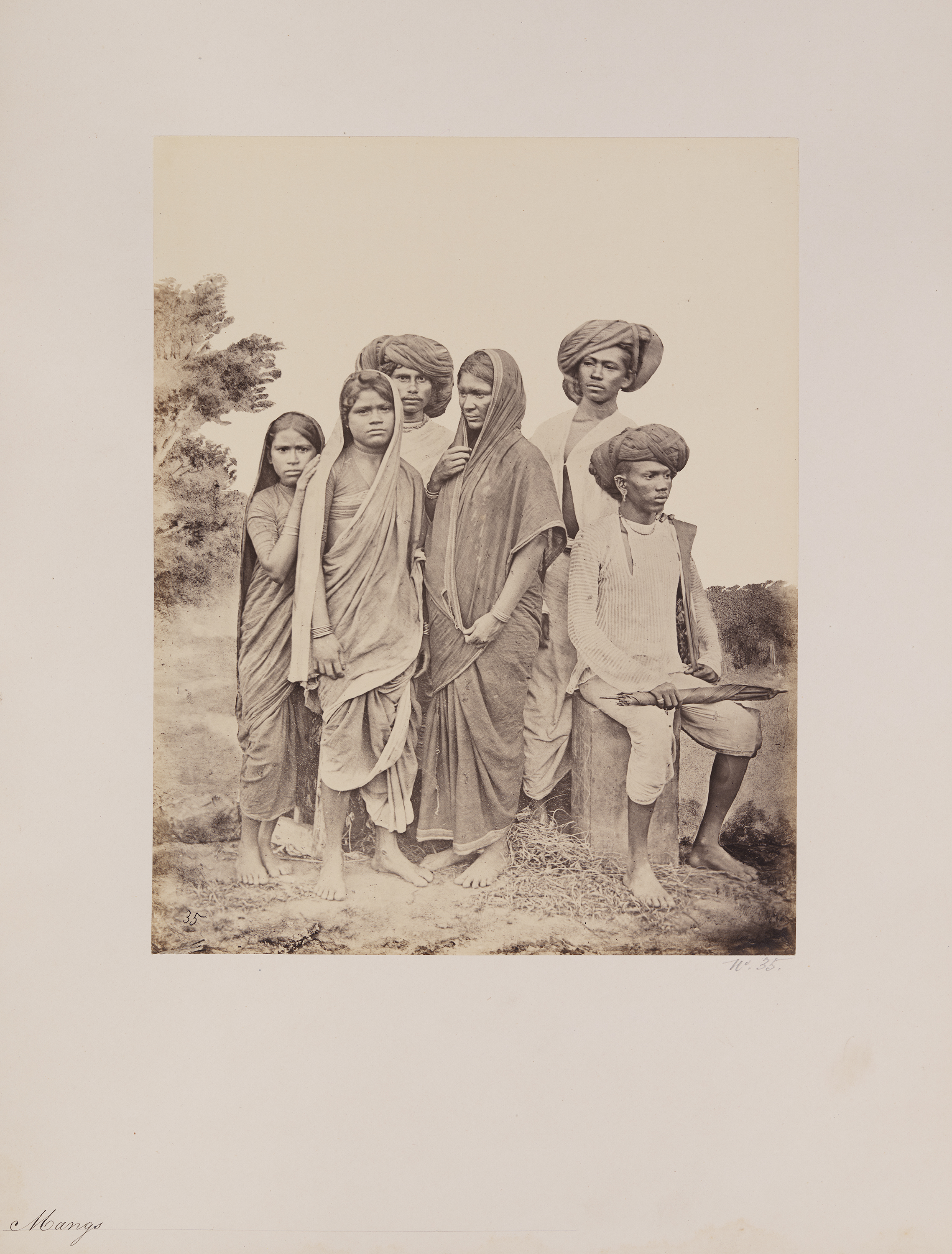 Title: Mangs Creator: Johnson, William Date: ca. 1855-1862 Part Of: Photographs of Western India Series: Photographs of Western India. Volume I. Costumes and Characters. Place: India Physical Description: 1 photographic print: albumen; 26 x 20 cm on 42 x 35 cm mount File: vault_ag2002_1407x_1_035_mangs_opt.jpg Rights: Please cite Southern Methodist University, Central University Libraries, DeGolyer Library when using this image file. A high-quality version of this file may be obtained for a fee by contacting . For more information, see: View Europe, India, and Asia: Photographs, Manuscripts, and Imprints